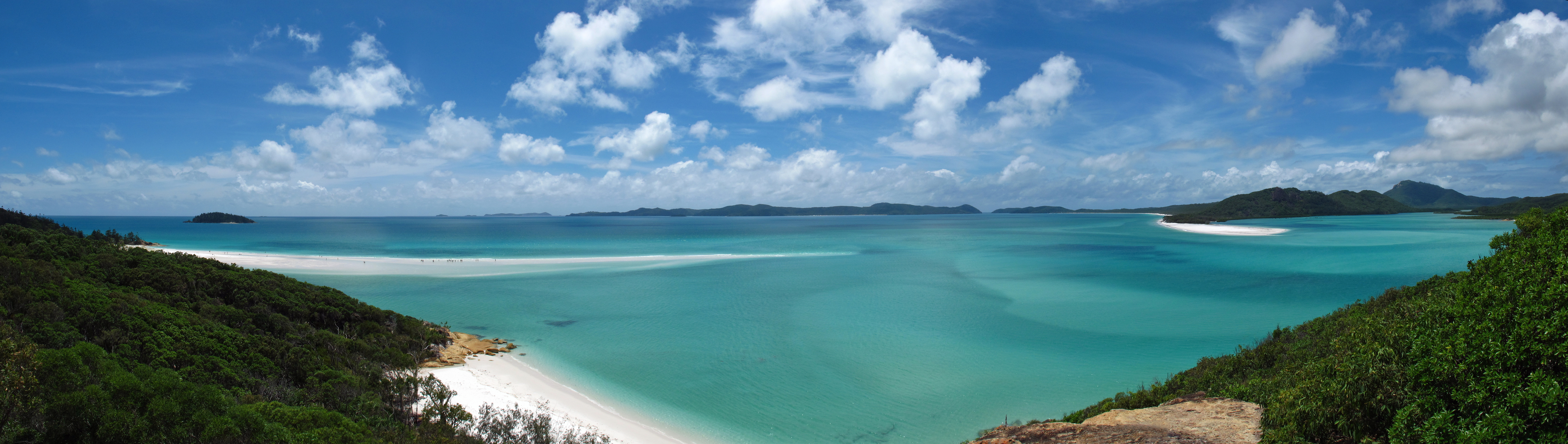 Panoramic view of the Whitsunday Islands National Park in Queensland, Australia.